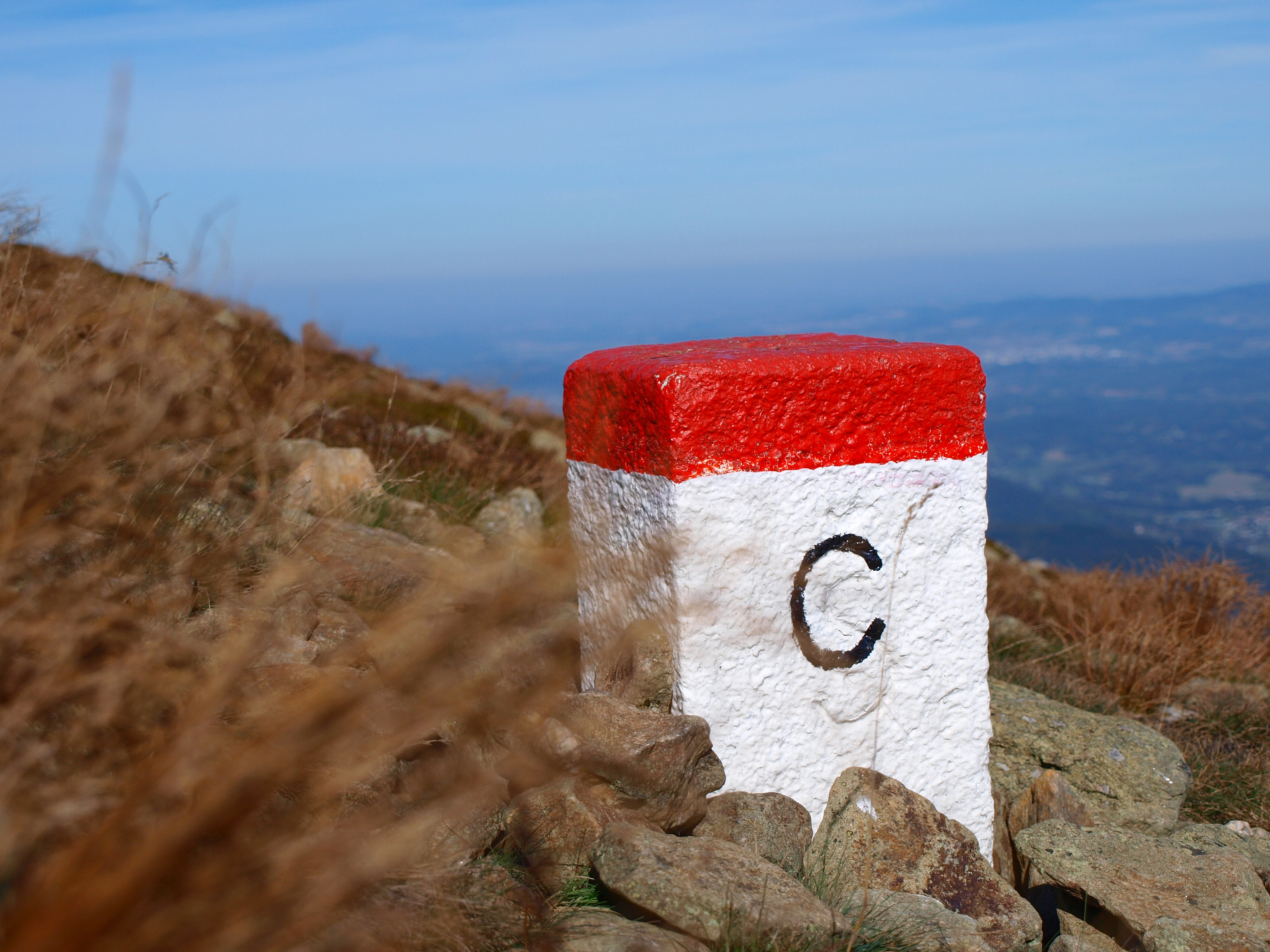 Boreder at cesta česko-polského přátelství towards Pomezní Boudy, Sněžka, Krkonoše